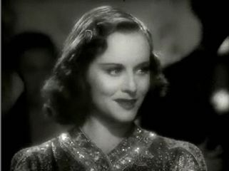 Cropped screenshot of Paulette Goddard from the trailer for the film Dramatic School